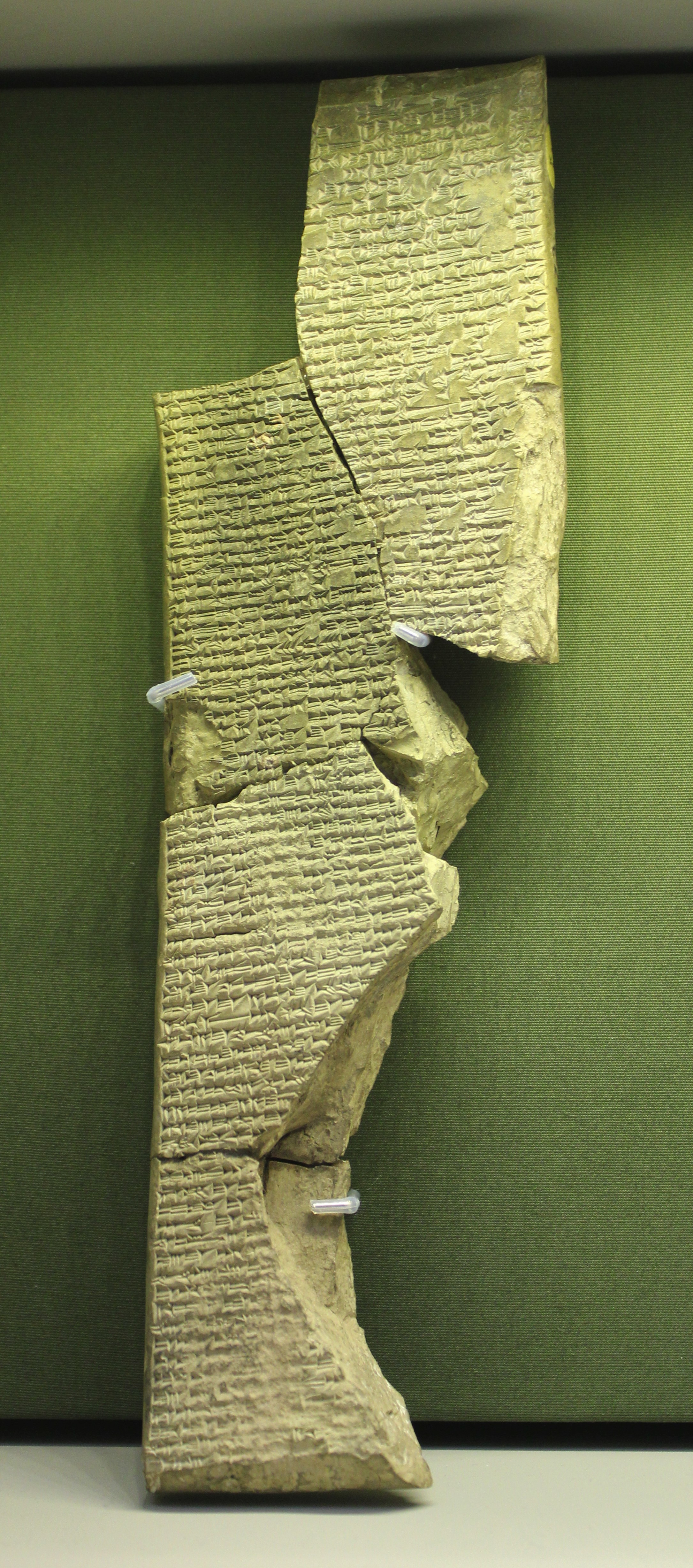 Fragment of a tablet from the Babylonian myth Enuma Elish, or Epic of Creation. Unearthed in Nineveh, in the "Library of Assurbanipal". 7th century BC. J.-C. K.3473.